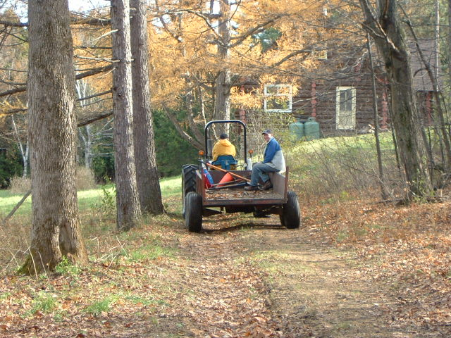 Chalet Pruche at the Morgan Arboretum